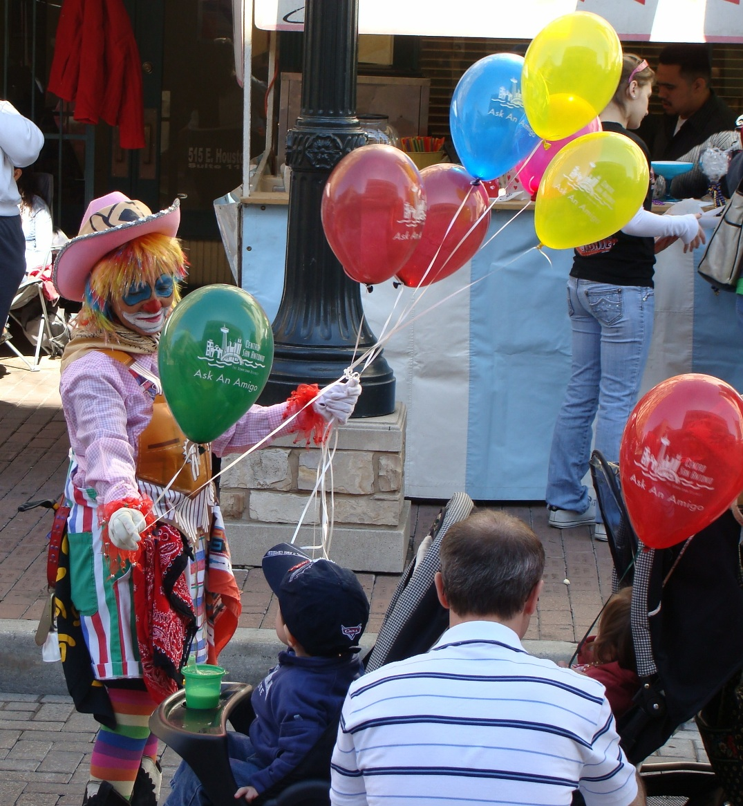 A clown on Houston St., San Antonio 2008 Stock and Rodeo Show inauguration